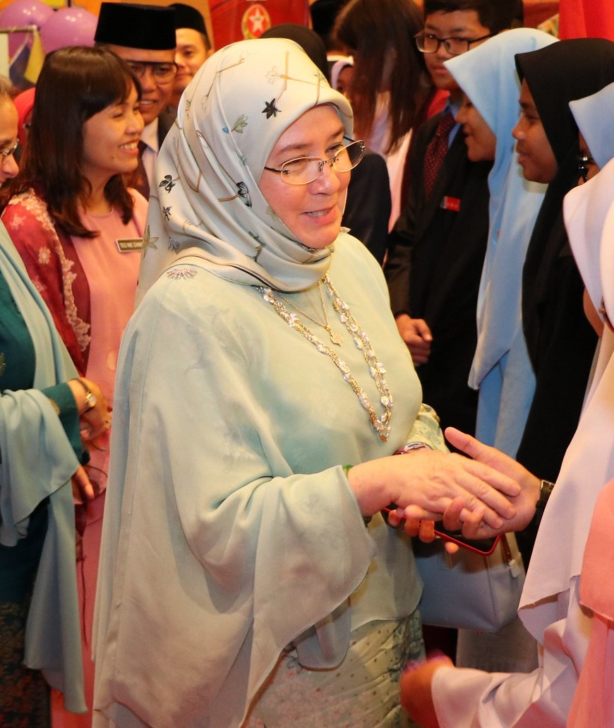 Her Majesty Tunku Azizah Aminah Maimunah Iskandariah, The Raja Permaisuri Agong of Malaysia, shake hand with students at Pahang English Teaching Assistant Showcase on 14 October 2019